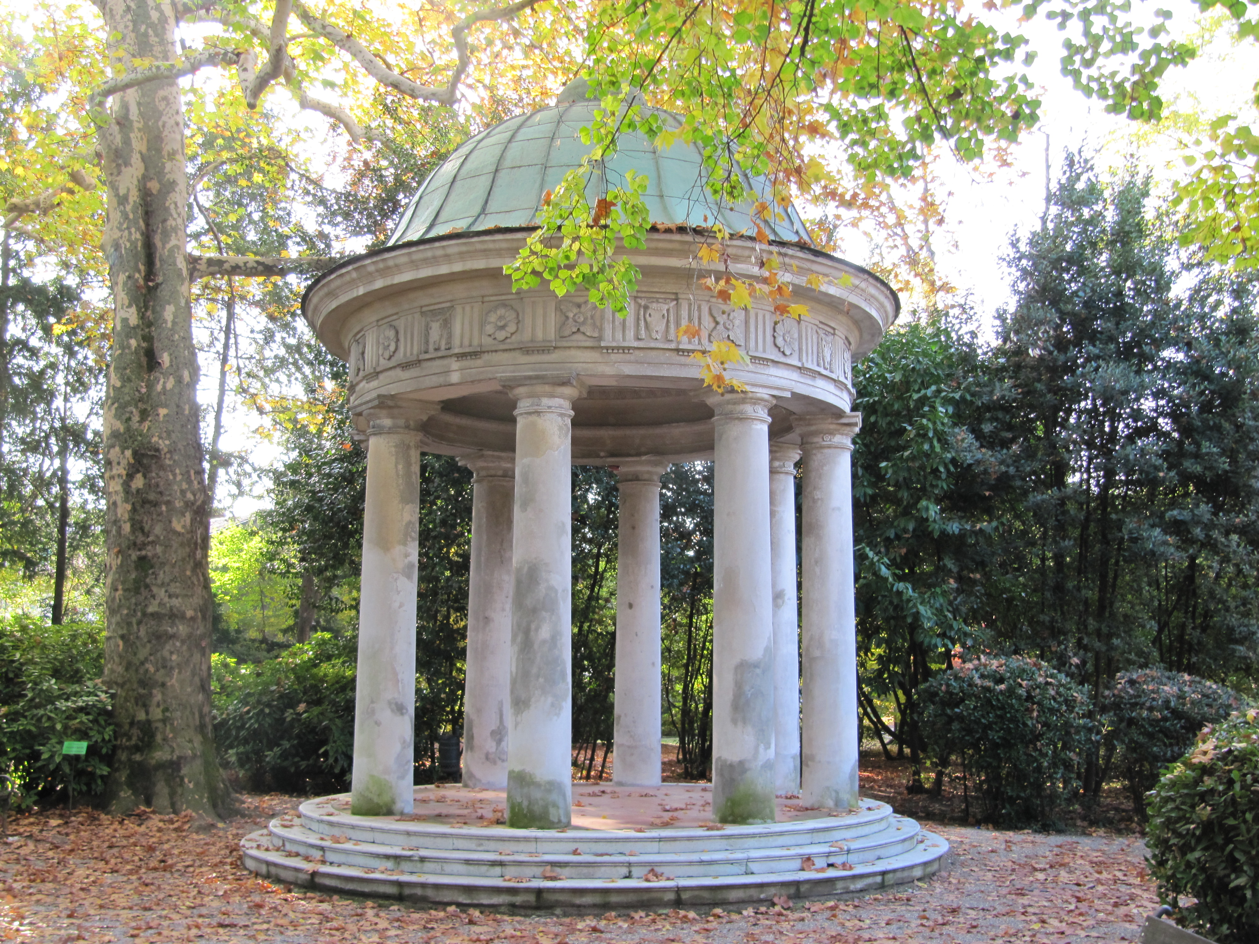 Park of municipality of Gorizia, Italy.